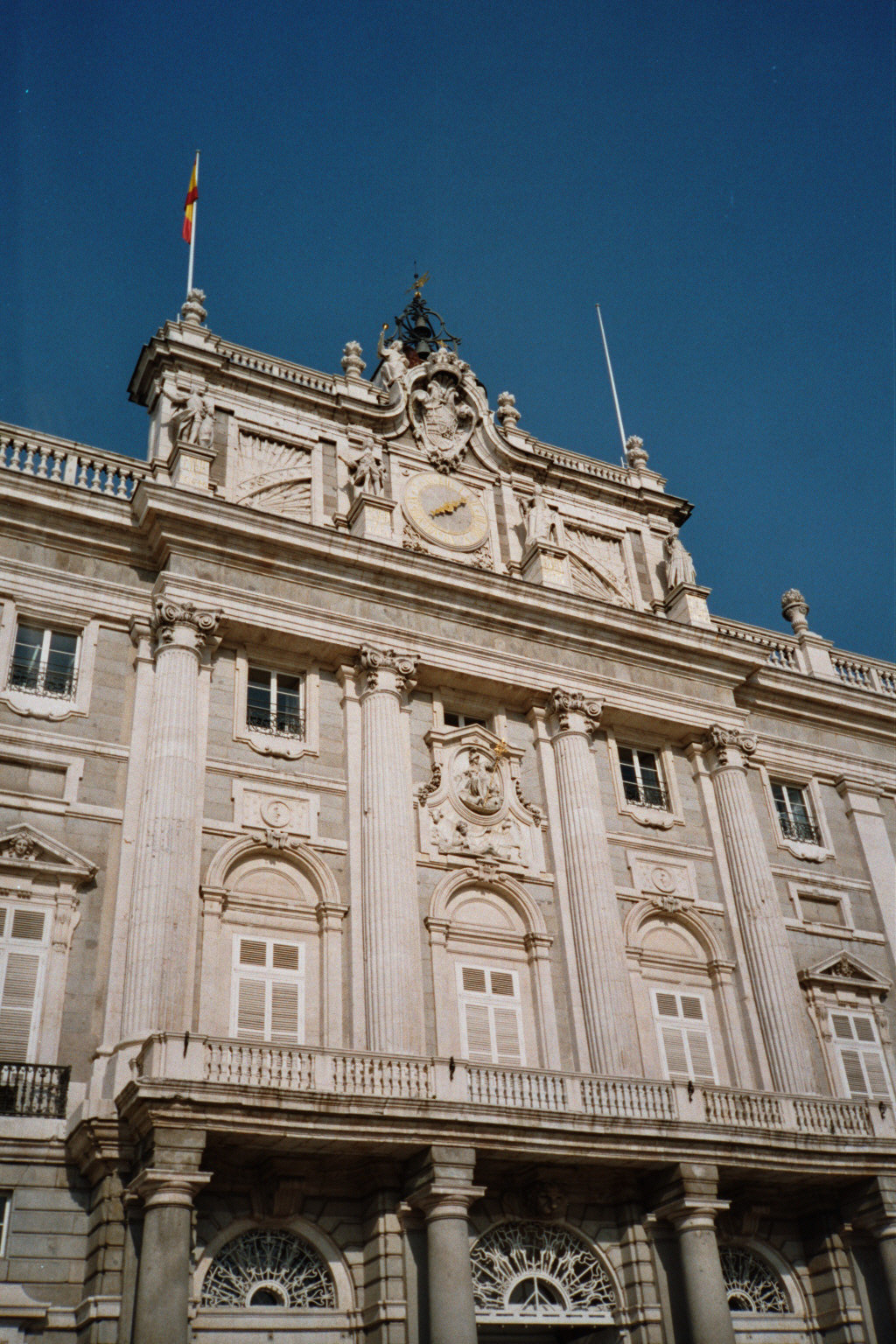 Description: View of the facade of the Palacio Real de Madrid (Royal Palace) in Madrid. Source: Self-made, I release it into the public domain.